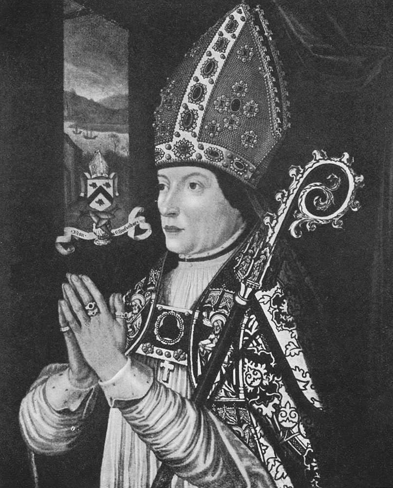 William Elphinstone (Bishop) Caption: WILLIAM ELPHINSTON, BISHOP OF ABERDEEN.